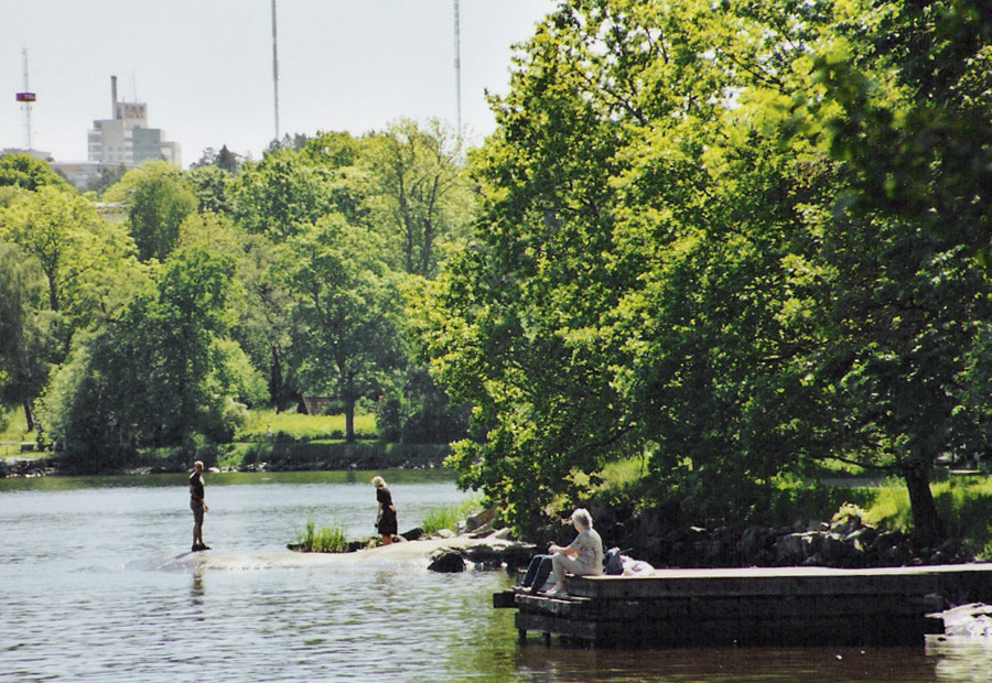 Parkudden in Djurgården, Stockholm, Sweden